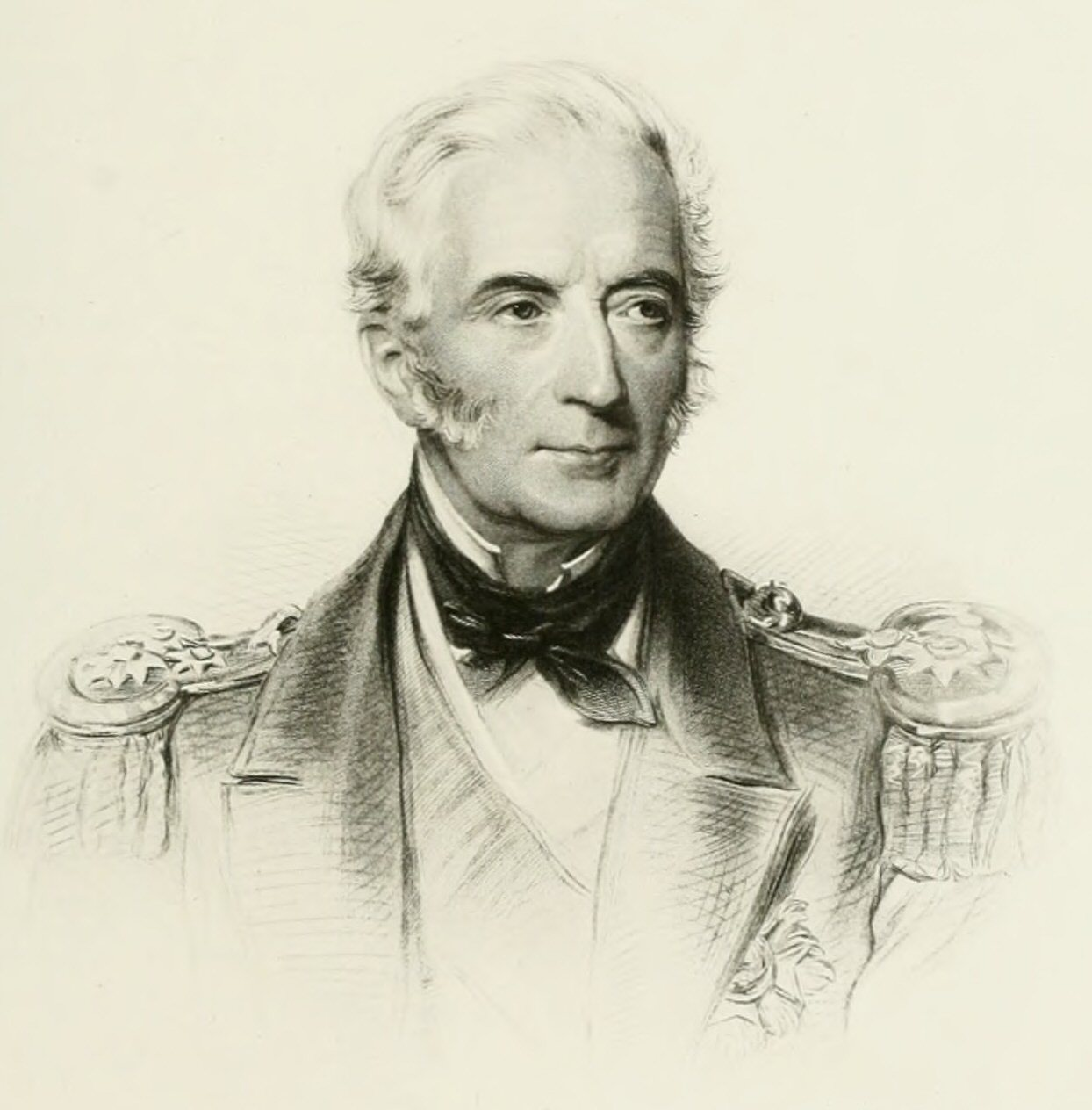 Admiral Sir Michael Seymour, GCB